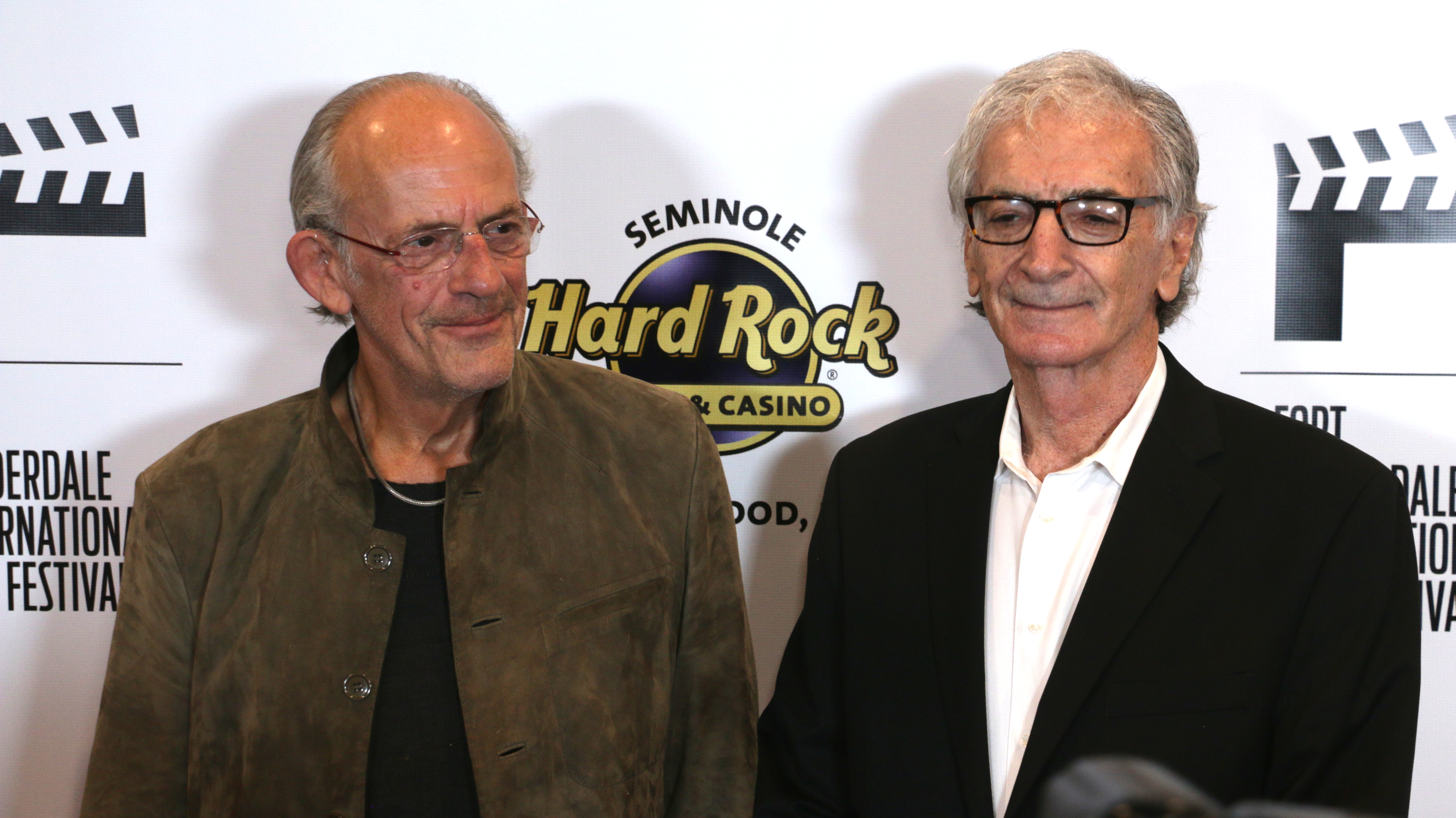 Christopher Lloyd at the Fort Lauderdale Film Festival, 2015.